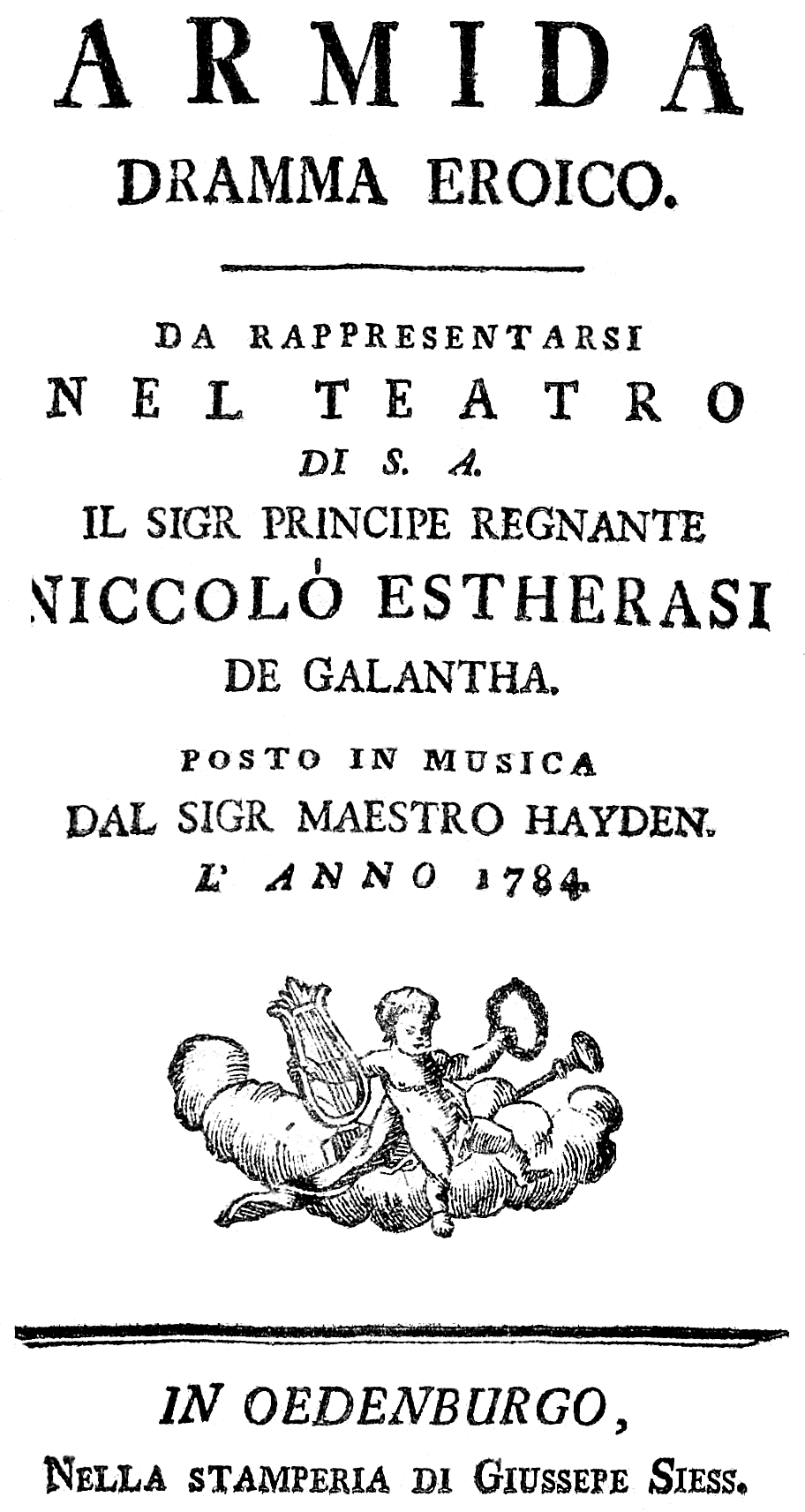 Joseph Haydn - Armida - titlepage of the libretto, 1784